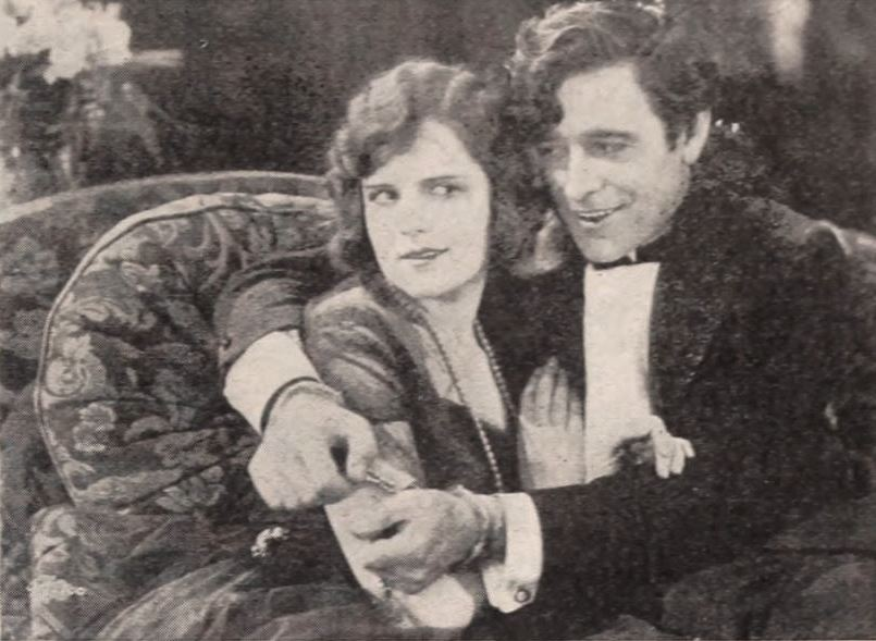 Still from the American mystery film Fifty Candles (1921) with Marjorie Daw and Edmund Burns, on page 87 of the December 17, 1921 Exhibitors Herald.